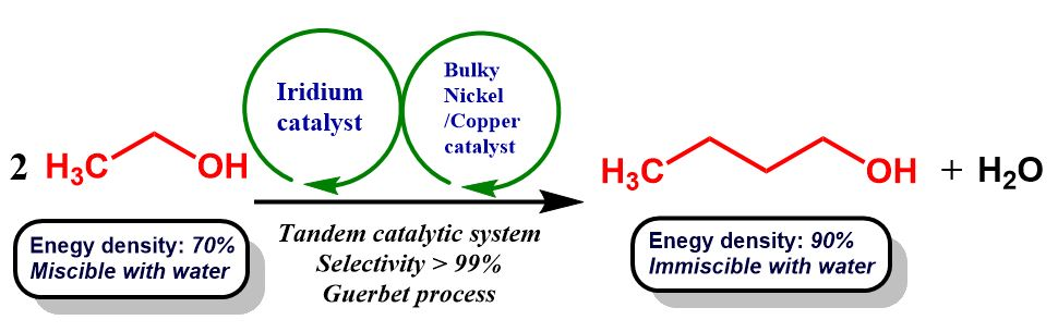 R. Tom Baker's research of converting ethanol to n-butanol with high selectivity.